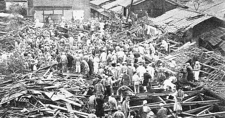 1934 Typhoon Muroto damage at Nishijin